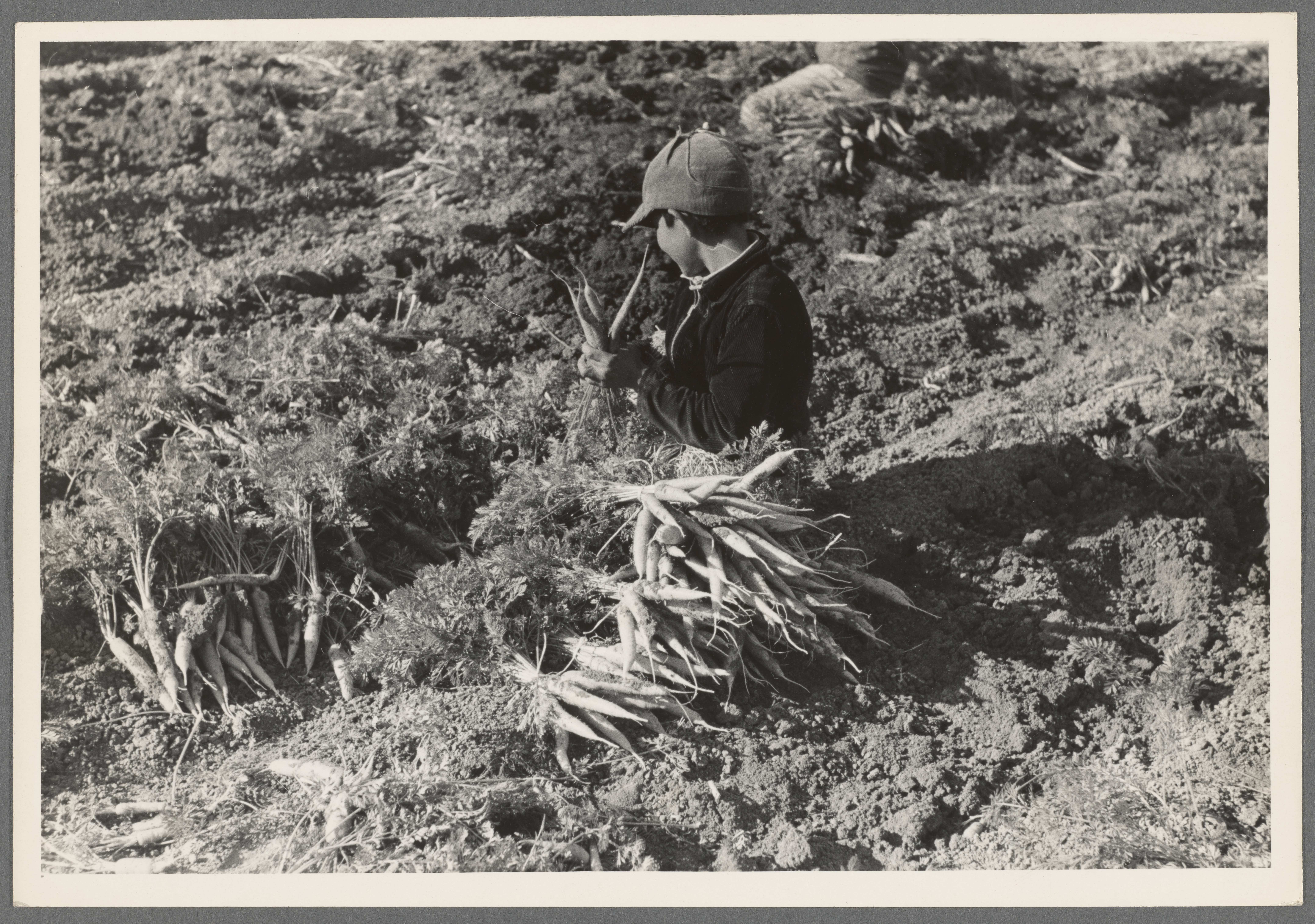 TMS ID: 60145 TMS Object Number: 011940-M1 Universal Unique Identifier (UUID): 54fe7f50-c4fb-0136-2200-3f72a79ac1bc